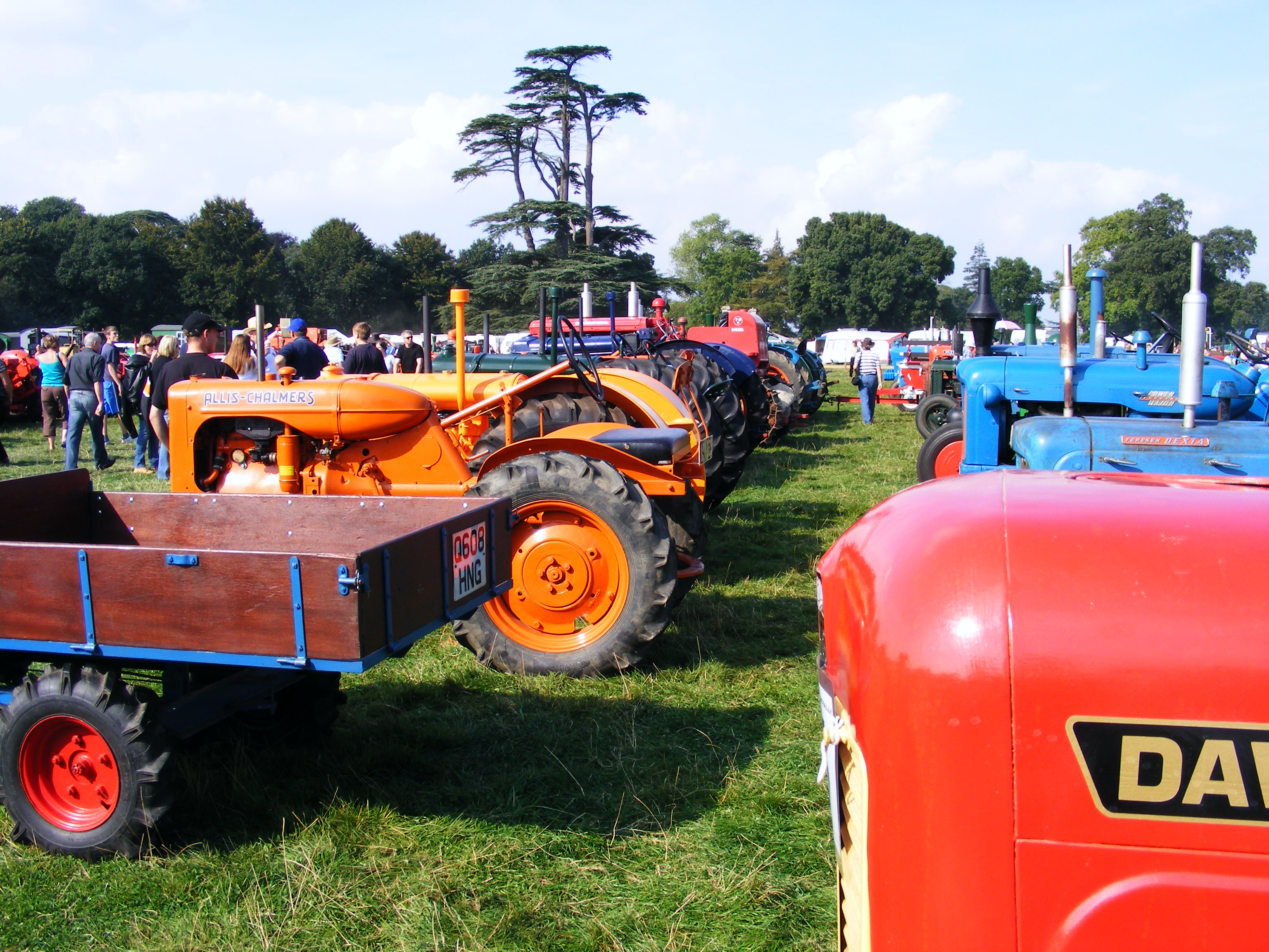 Some of the many tractors at the 2008 Henham Steam Rally